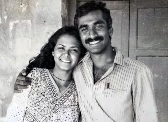 Sadhguru (right) with wife Vijayakumari (left)